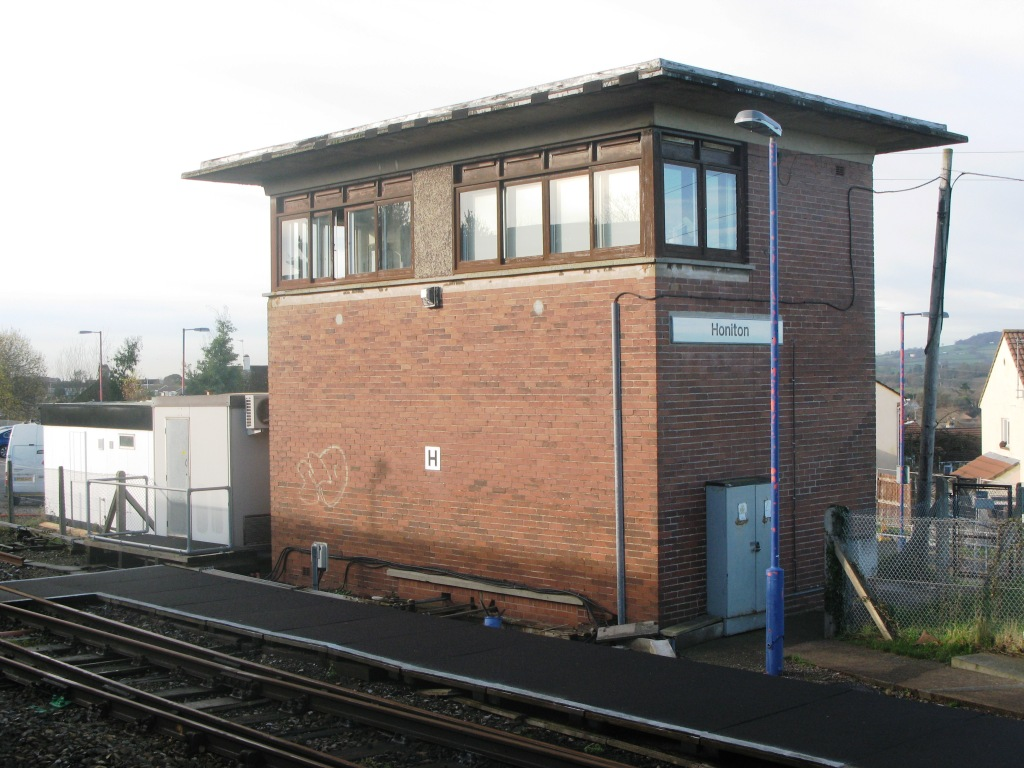 The signal box at Honiton, Devon, England.